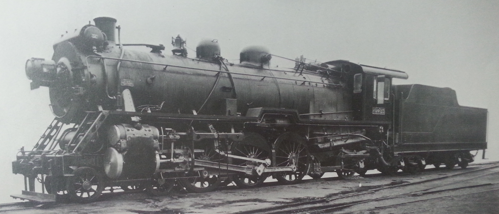 Builder's phot of South Manchuria Railway locomotive Pashiro 25, built 1940 or 1941 by Kawasaki